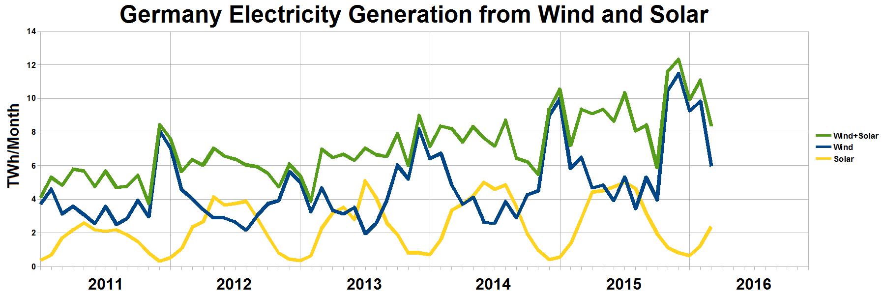 Monthly electricity generation in Germany from wind power and solar power as a multiple year chart. Data from[1]